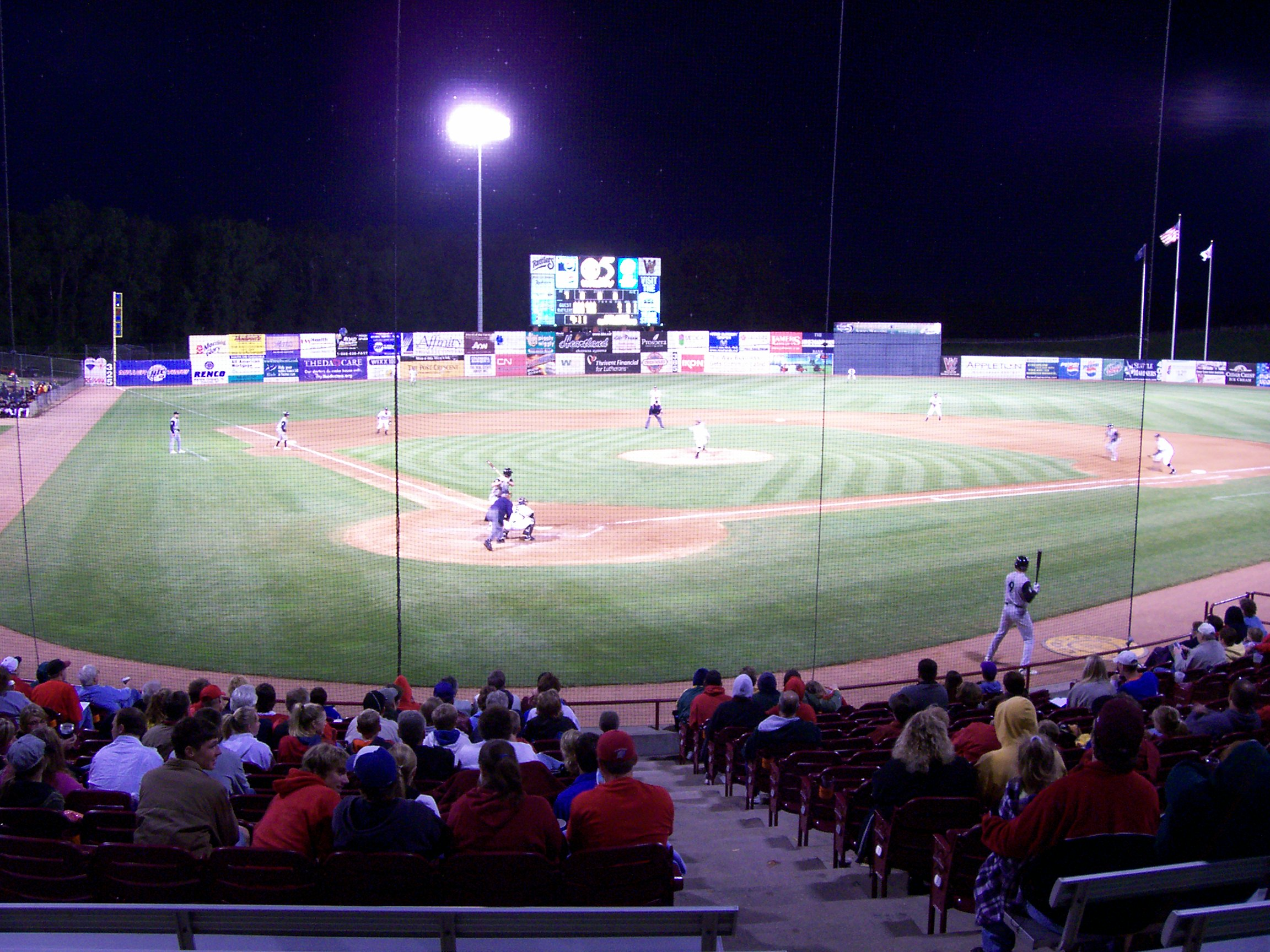 An image that I took myself of the Fox Cities Stadium, taken at the June 9, 2006 game between the Wisconsin Timber Rattlers and Kane County Cougars. 05:21, 10 June 2006 . . Royalbroil . . 2,304×1,728 (769 KB)